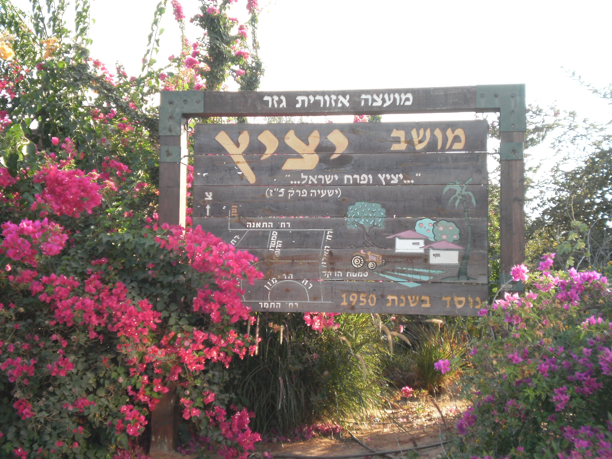 sign at entrance to Moshav Yatzitz, Gezer Regional Council, Israel